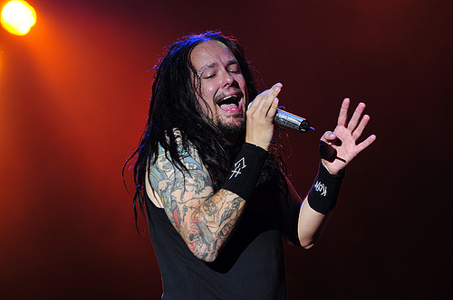 jonathan davis korn